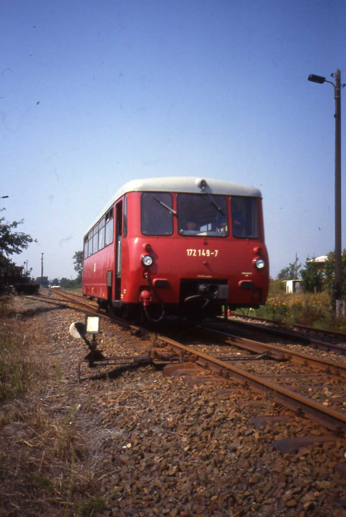 DR Class 172 ("Piglet taxi") entering Friedrichswerth, Thuringia, Germany, in August 1991